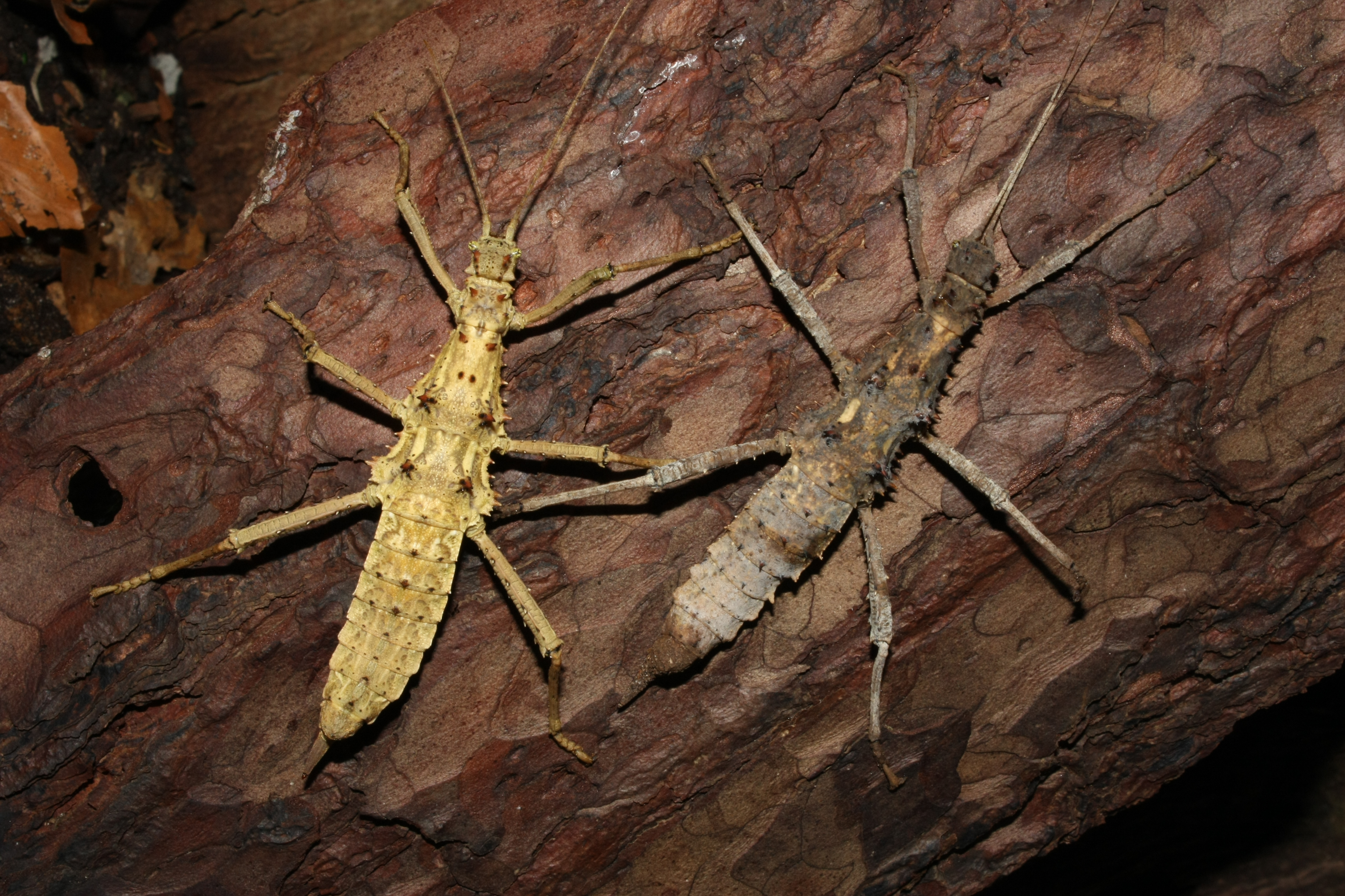 bright and normal coloured female of Thorny Stick Insect (Aretaon asperrimus)